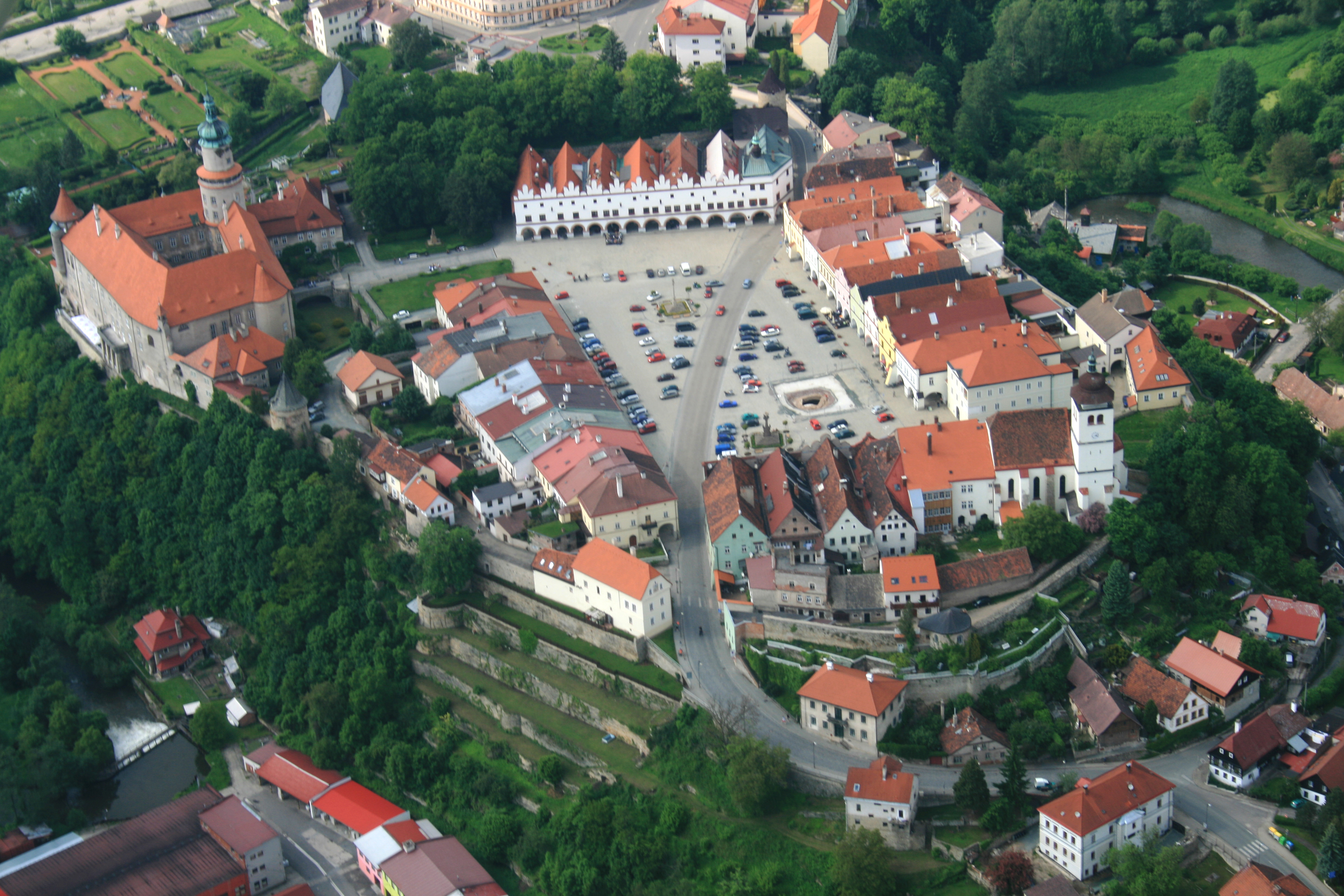 Old part of town and castle in Nové Město nad Metují from air, eastern Bohemia, Czech Republic